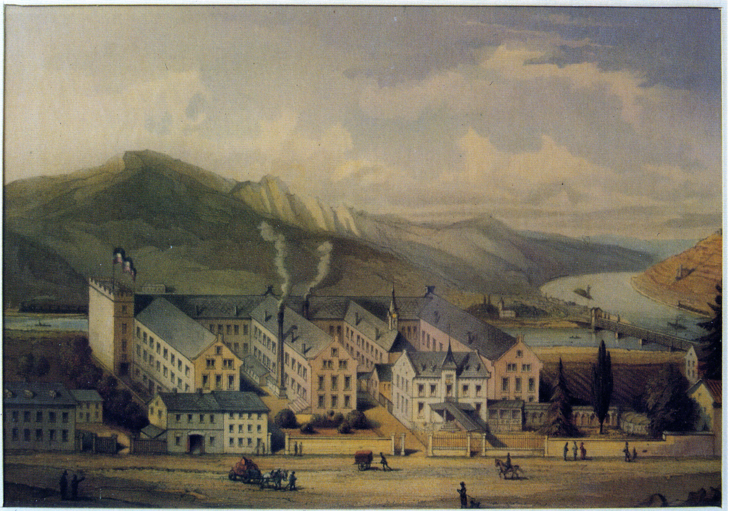 Tobacco factory at Bingen Gaustraße, anonymous artist, c. 1900. watercoloured drawing, 145x204 mm